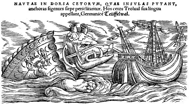 Trolual, Teufelwal.